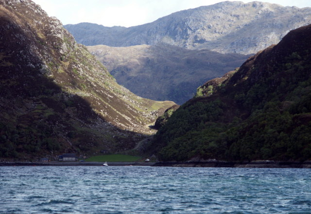 Tarbet and adjoining hills, Loch Nevis This view was from the Mallaig ferry as it entered Tarbet Bay. The deep cleft in the hills allows foot access, via a lengthy path and track, to and along the northern shore of Loch Morar - eventually leading to the village of Morar itself. Otherwise, Tarbet is wholly reliant on the periodic ferry service for connection with the outside world beyond Loch Nevis.